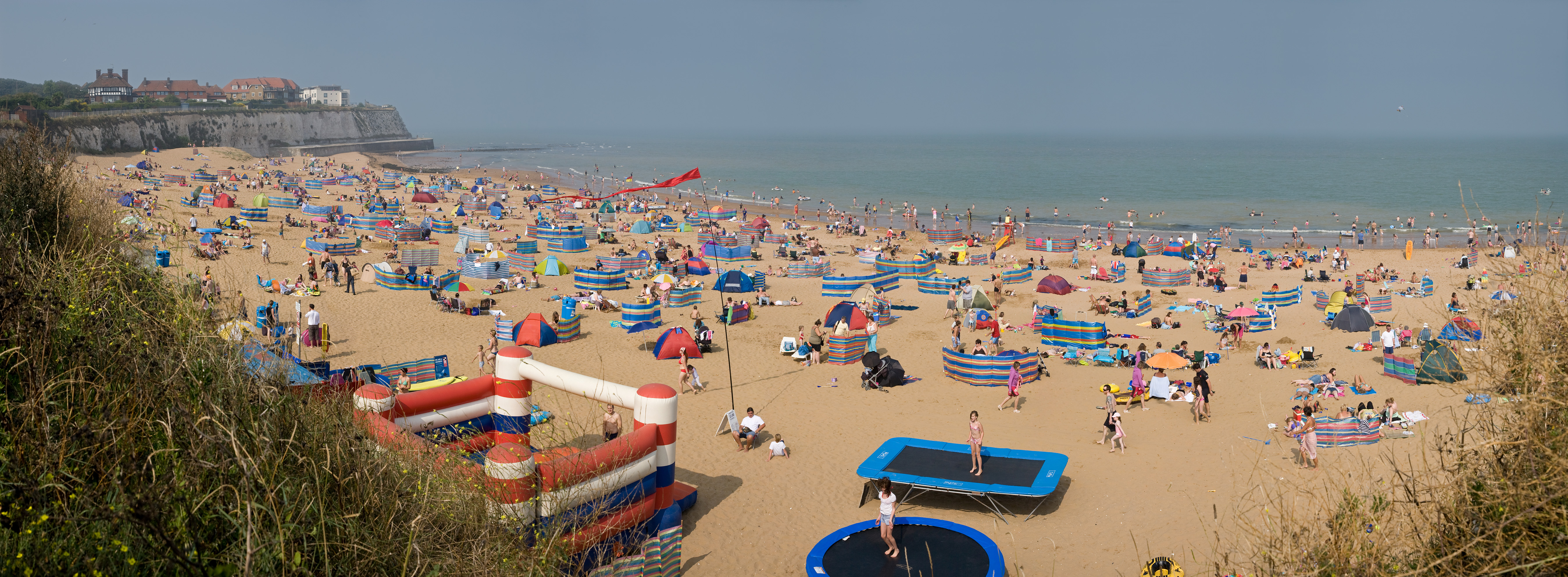 A sunny August day at the beach at Joss Bay, a rural beach not far from Broadstairs in Kent, England.